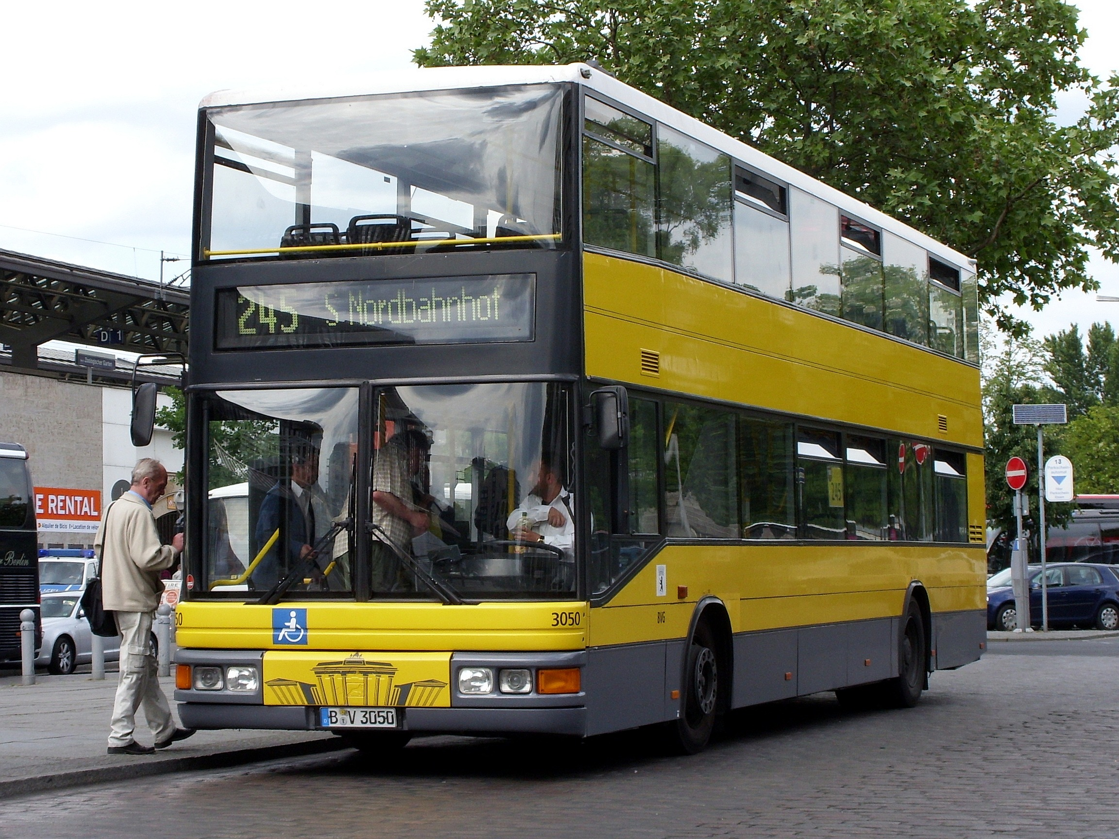 MAN-Doppeldeckerbus ND 202 der BVG. This type of vehicle has subsequently been withdrawn.